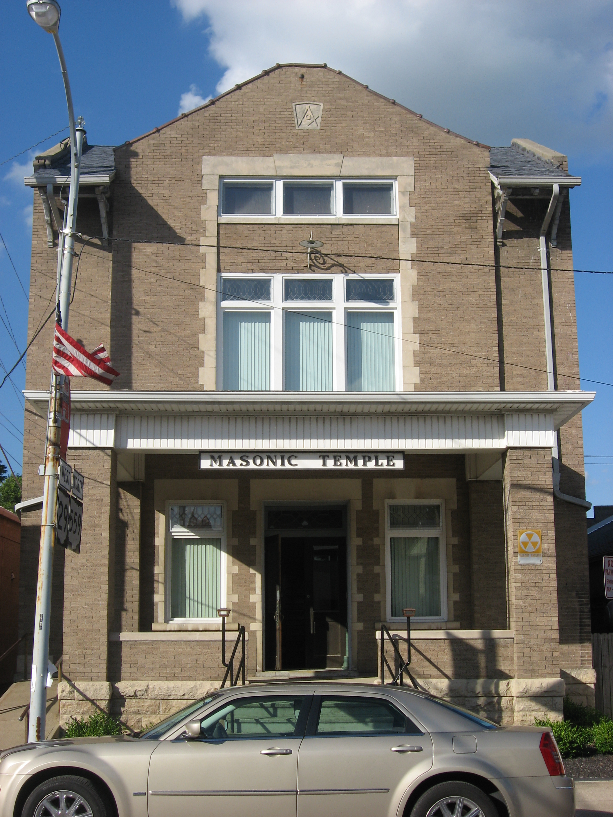 Front of the Masonic Temple, located in the first block of N. Main Street (State Route 29) in Mechanicsburg, Ohio, United States. Built in 1909, it is listed on the National Register of Historic Places.